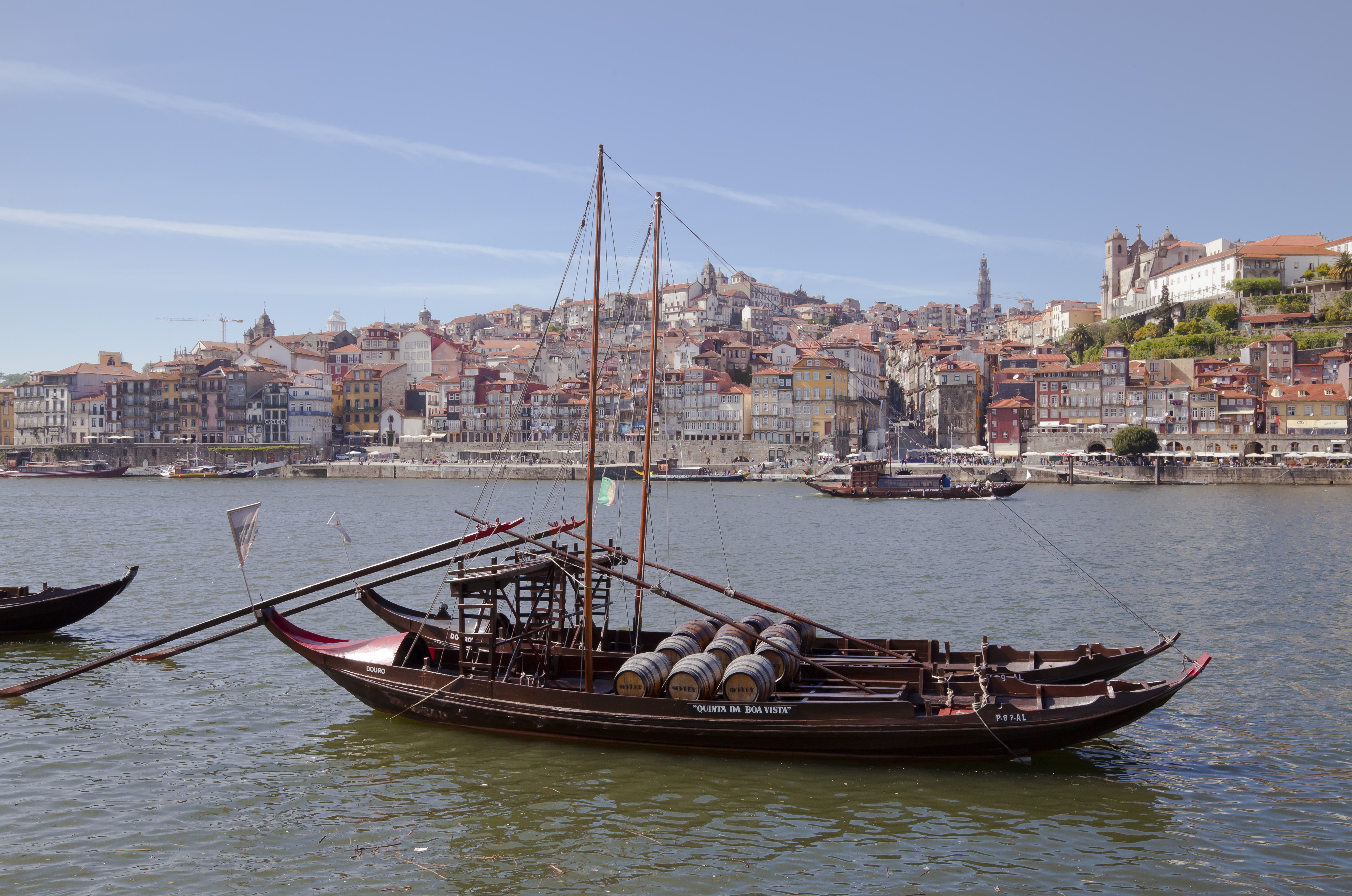 Rabelos in the Duero river, Vila Nova de Gaia, Portugal